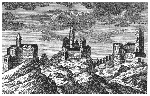 A drawing of the three castles at Hausberg hill near Jena.